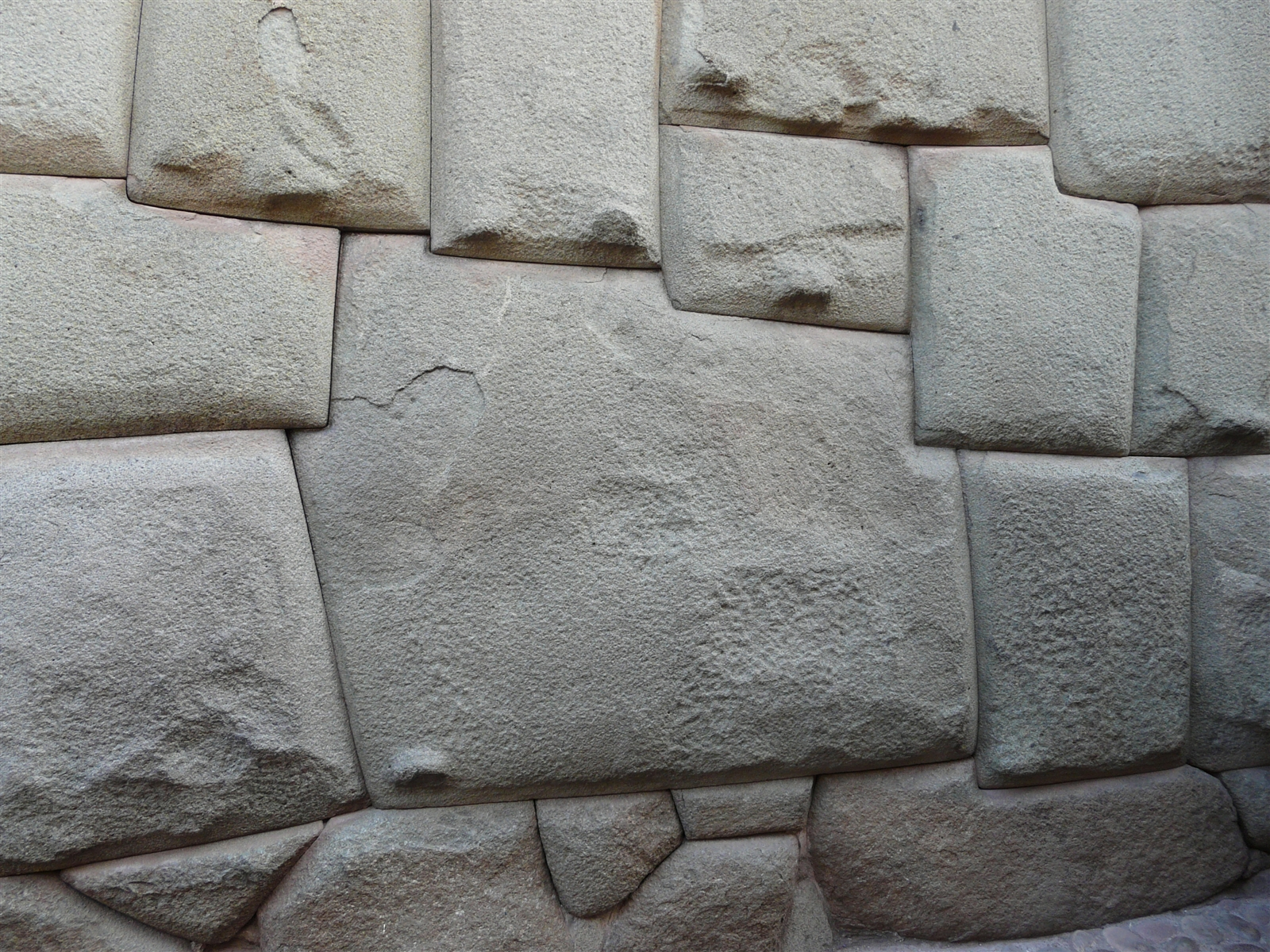 Inca wall in Cuzco. The main stone has been carved out of 12 faces.